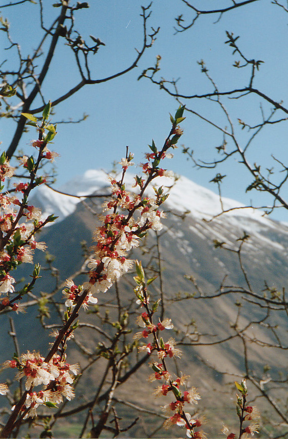 Spring in Hunza Valley